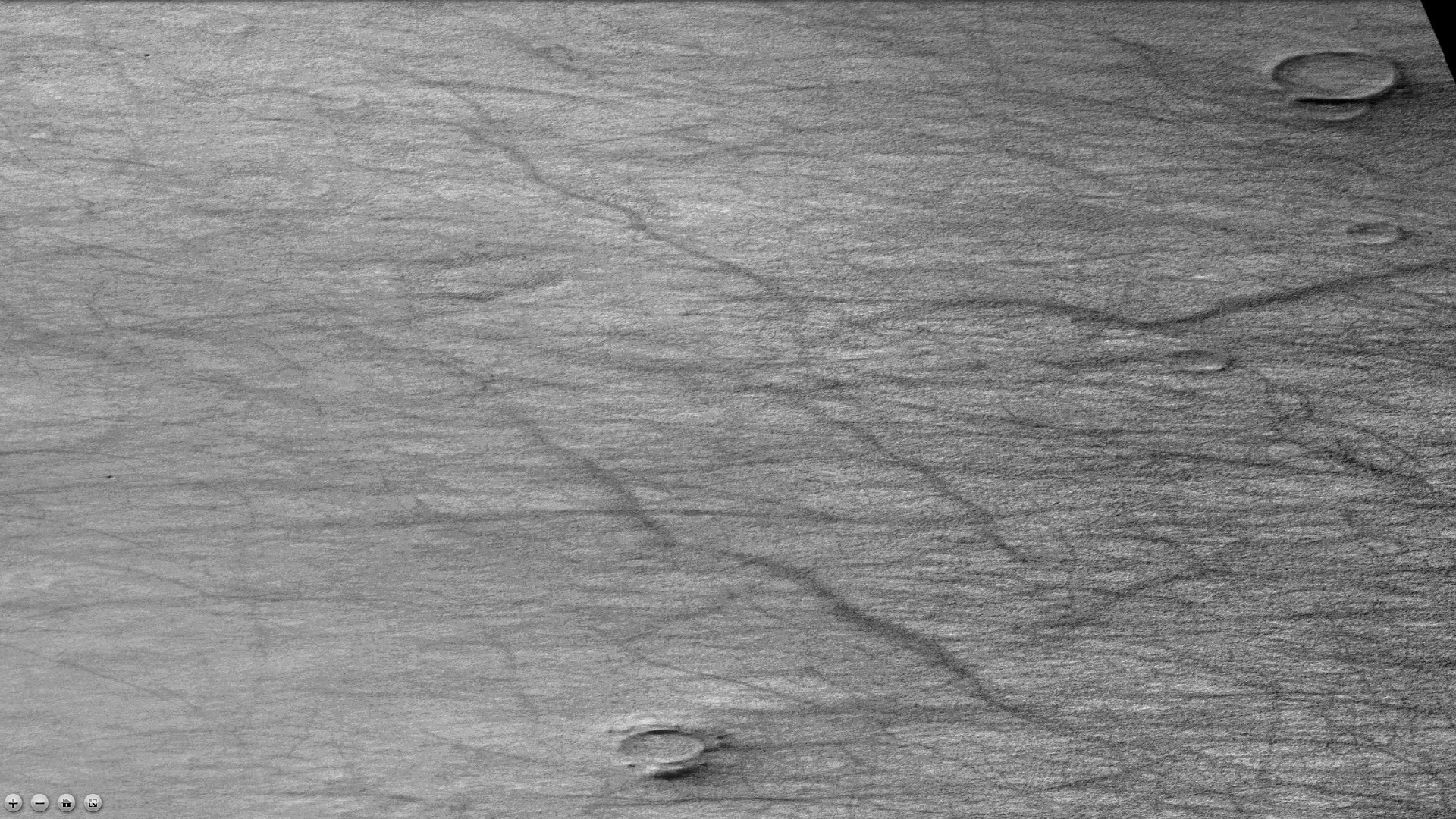 Western side of Mitchel Crater showing dust devil tracks, as seen by ctx